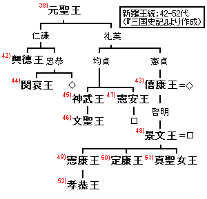 the geneology of Silla( 42nd King ~ 52nd King) / 新羅王系図(第42代～52代)